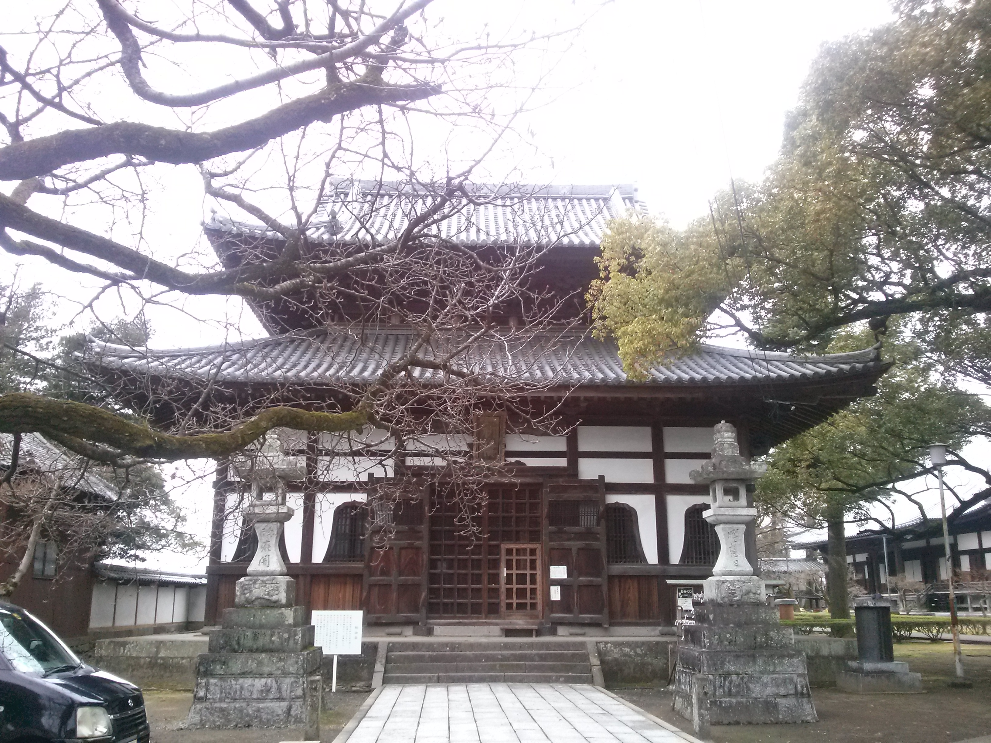 Zendoji Temple Buddha Building